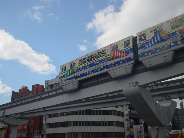 Description: Kitakyushu monorail in party mood leaving Kokura station in Kitakyushu Author: Ian Ruxton Date: January 5, 2005